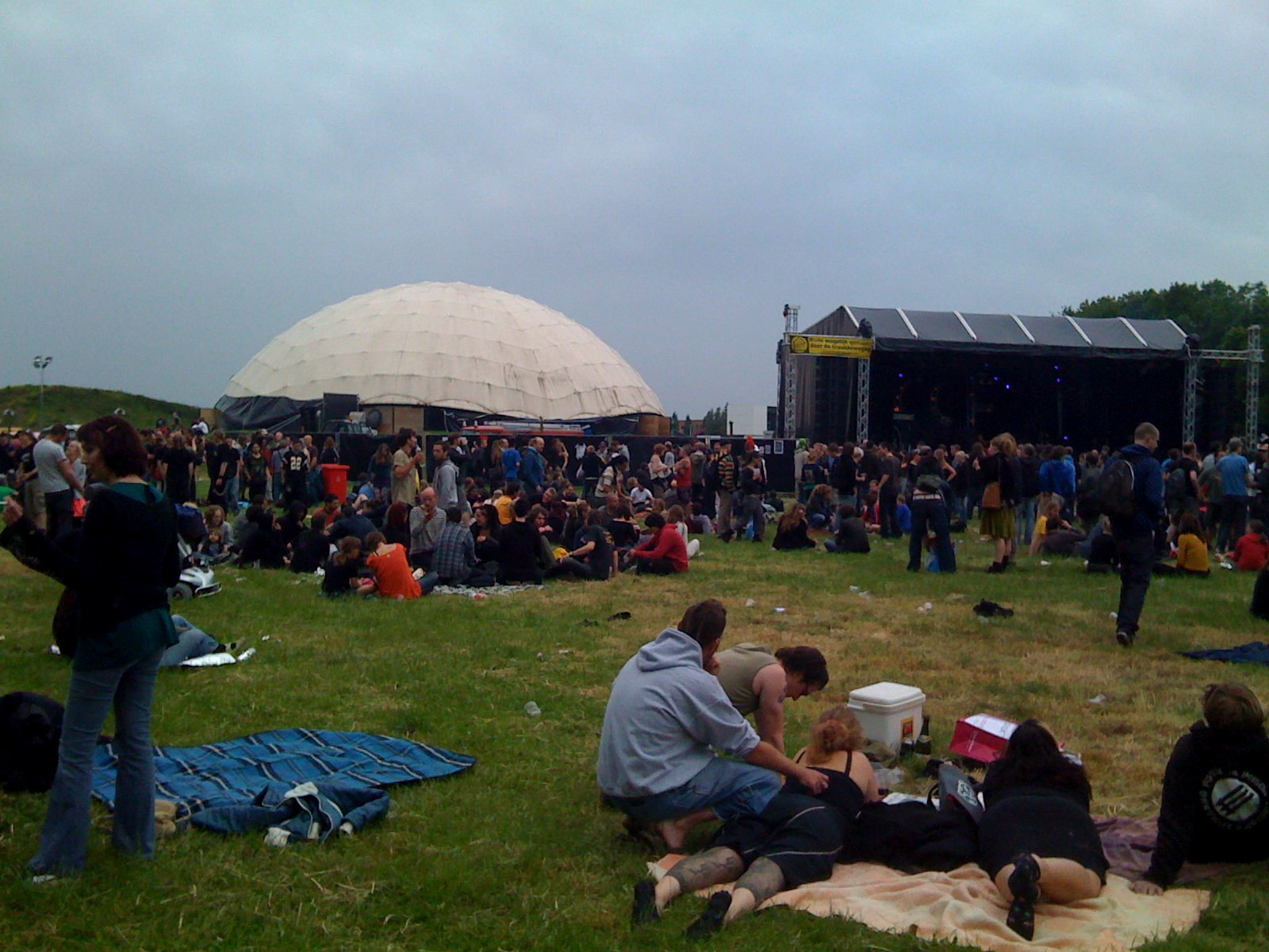 Counter Culture Festival 2009, Utrecht, NL